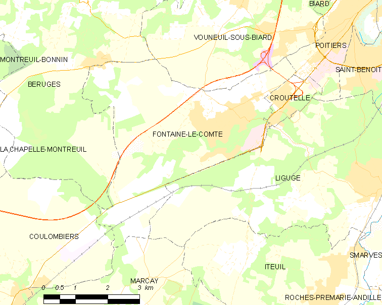 Map of French municipality Fontaine-le-Comte